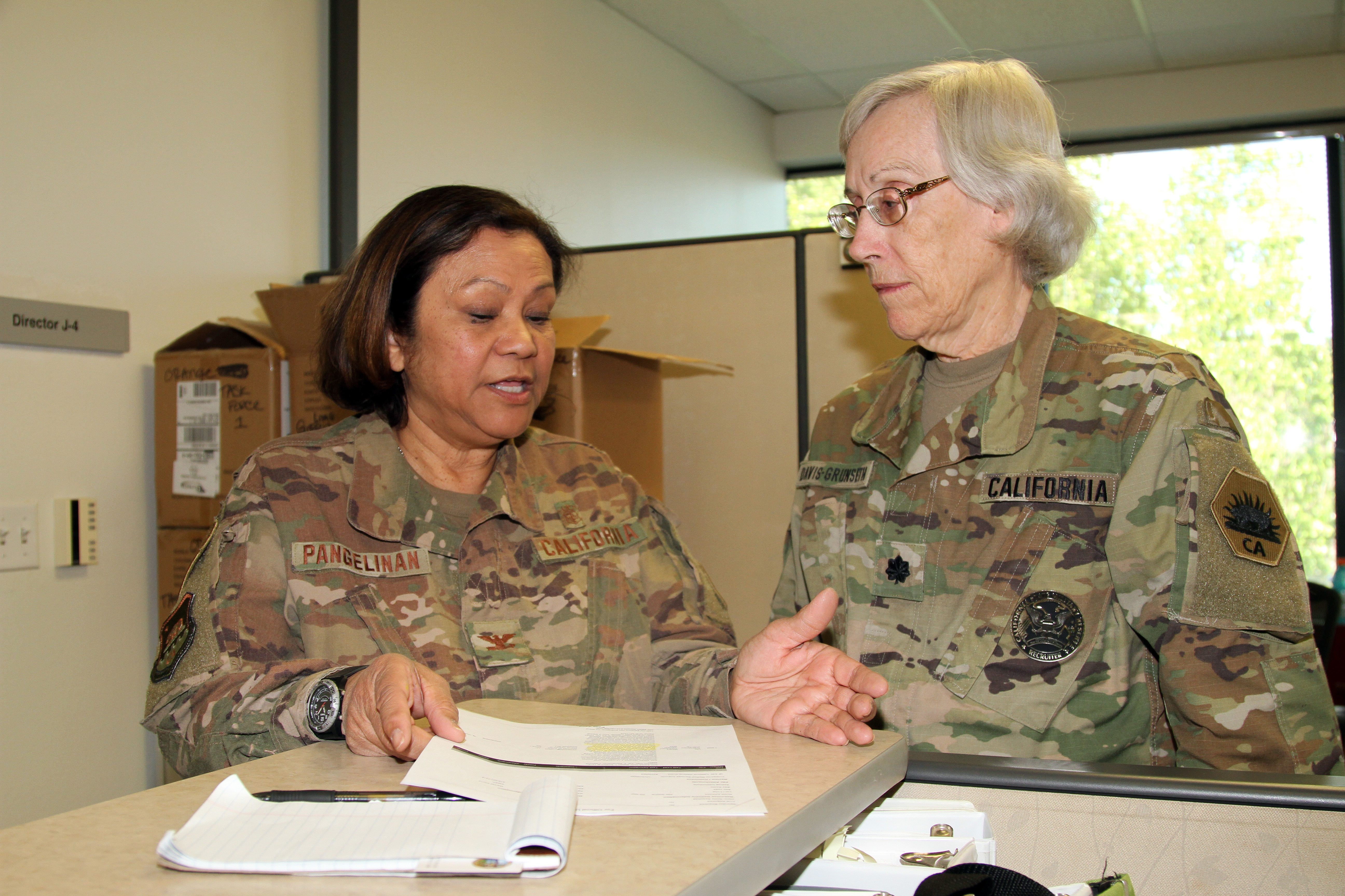 California State Guard Col. (CA) Susan I. Pangelinan, deputy surgeon general, and Lt. Col. (CA) Bonnie Davis-Grunseth, Joint Medical Command commander, review a mission tracker March 25 at the California Military Department headquarters in Sacramento. The State Guard quickly assembled a 9-member team in support of COVID-19 operations that the California National Guard responded to. The medical element will be engaged in the San Francisco Bay Area which set stringent public requirements at the coronavirus initial outbreak. (Army National Guard photo by Staff Sgt. Eddie Siguenza)